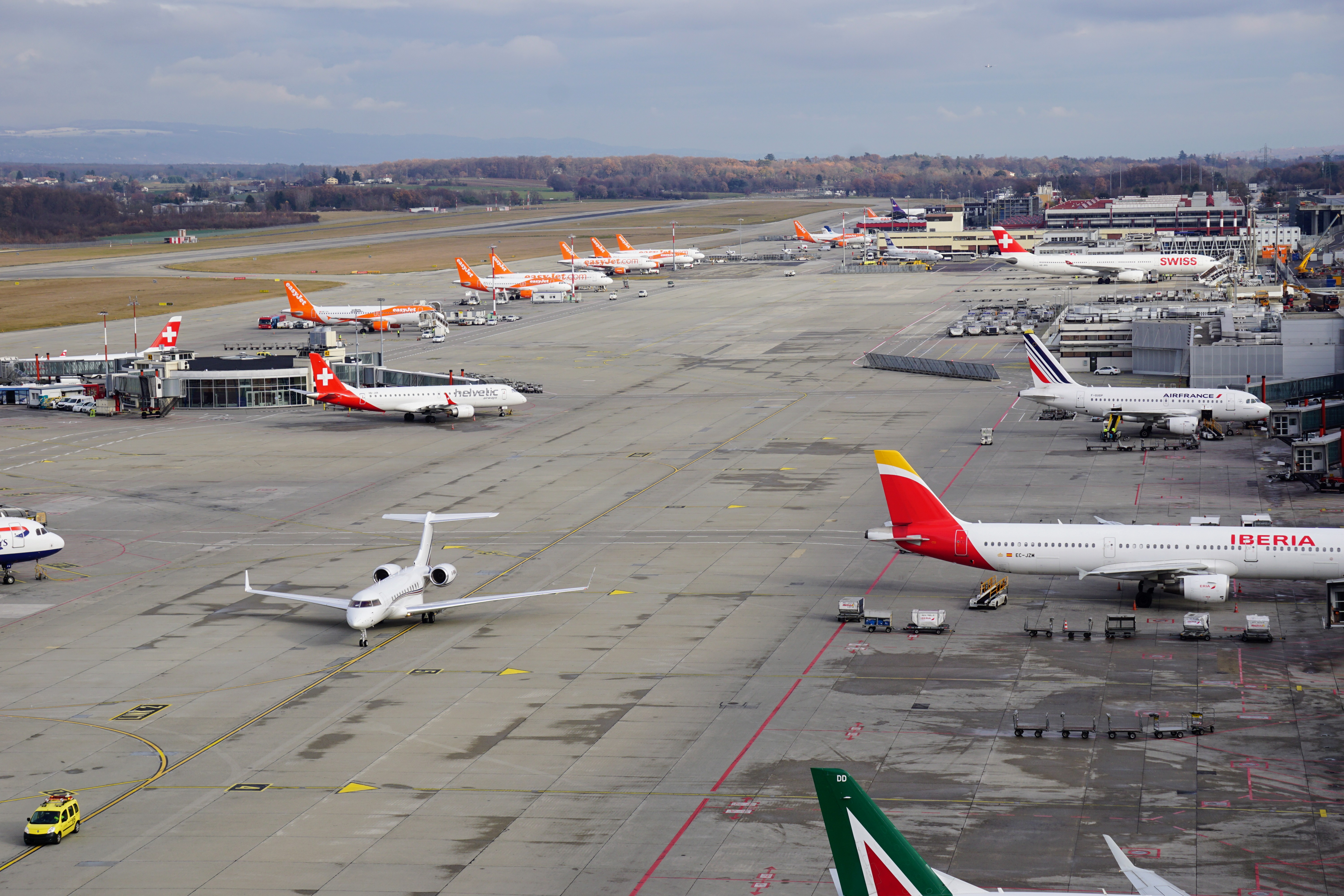 A view of the apron and the runway from the tower